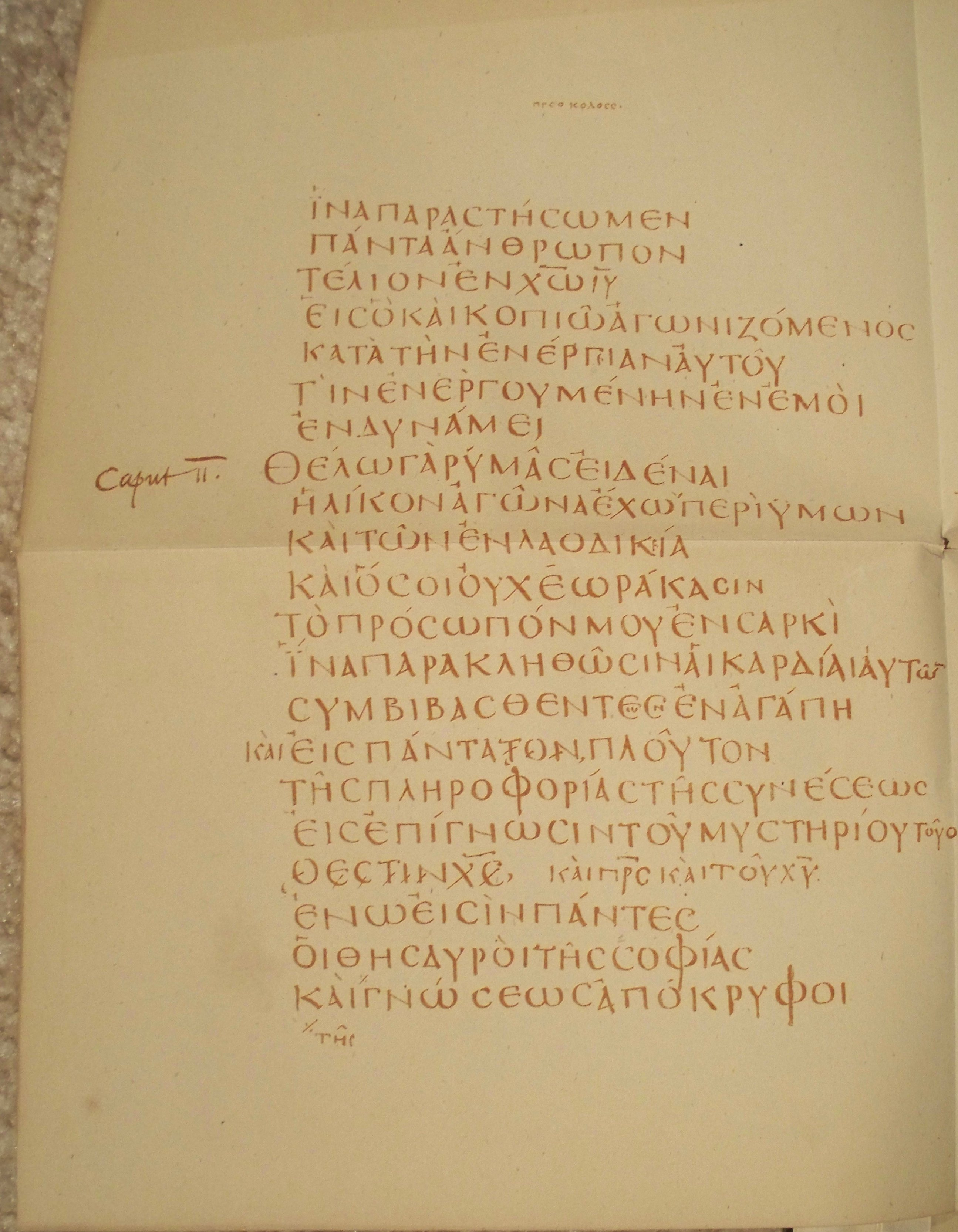 Single page of the Codex Claromontanus containing the greek text of Colossians 1:28-2:3